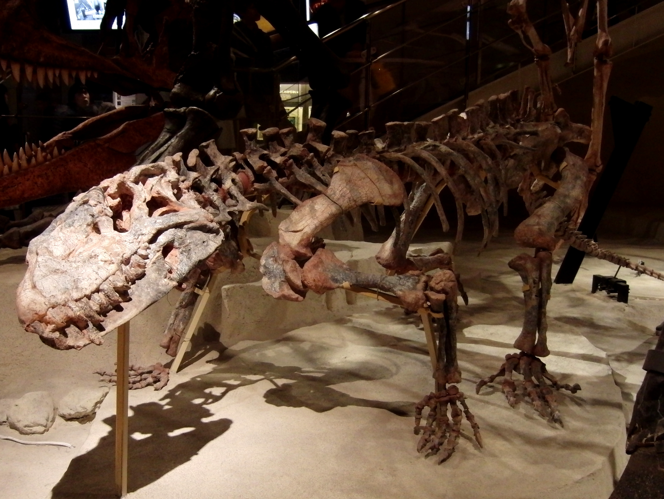 Skelton of Prestosuchus chiniquensis. Exhibit in the National Museum of Nature and Science, Tokyo, Japan.